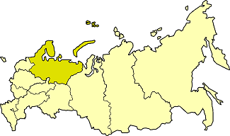 northern economic region based on Image:Economic regions of Russia.png